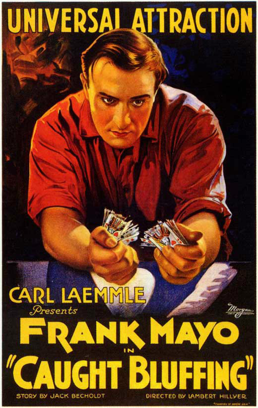 Poster for the American drama film Caught Bluffing (1922) with Frank Mayo.